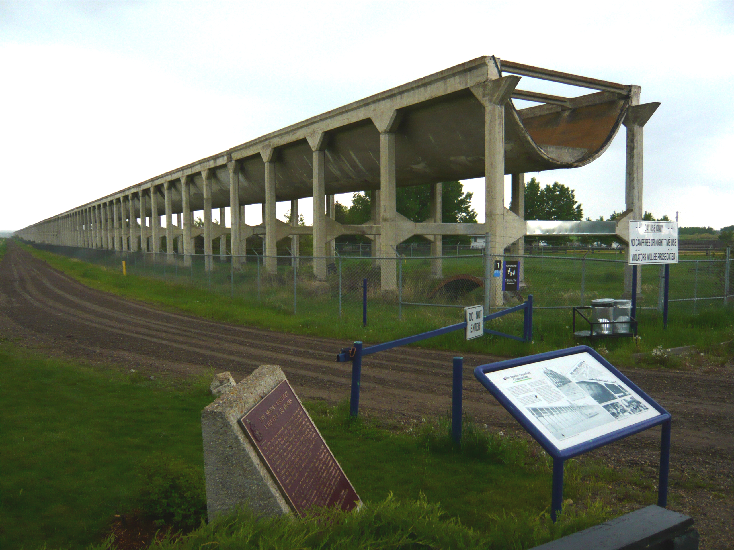 Photo of a segment of Brooks Aqueduct, a National Historic Site of Canada near Brooks, Alberta